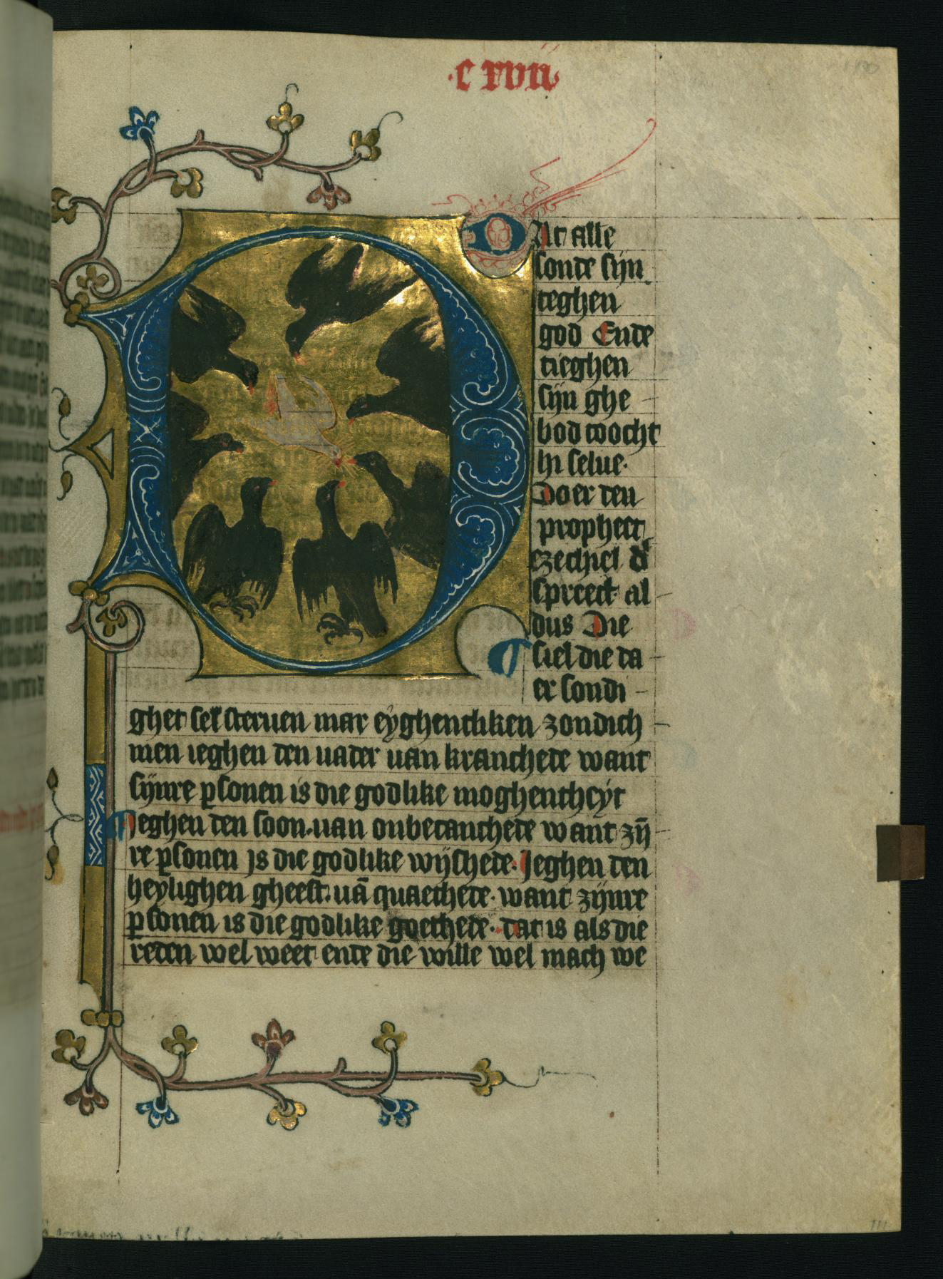 This folio from Walters manuscript W.171 depicts the Holy Ghost and the seven deadly sins.